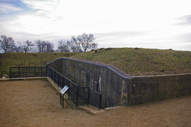 Reigate Fort - The Magazine. See 1143457. It contained two rooms, one for cartridges and one for shells, with a passage linking the two. Humidity and temperature were controlled to protect the ammunition.